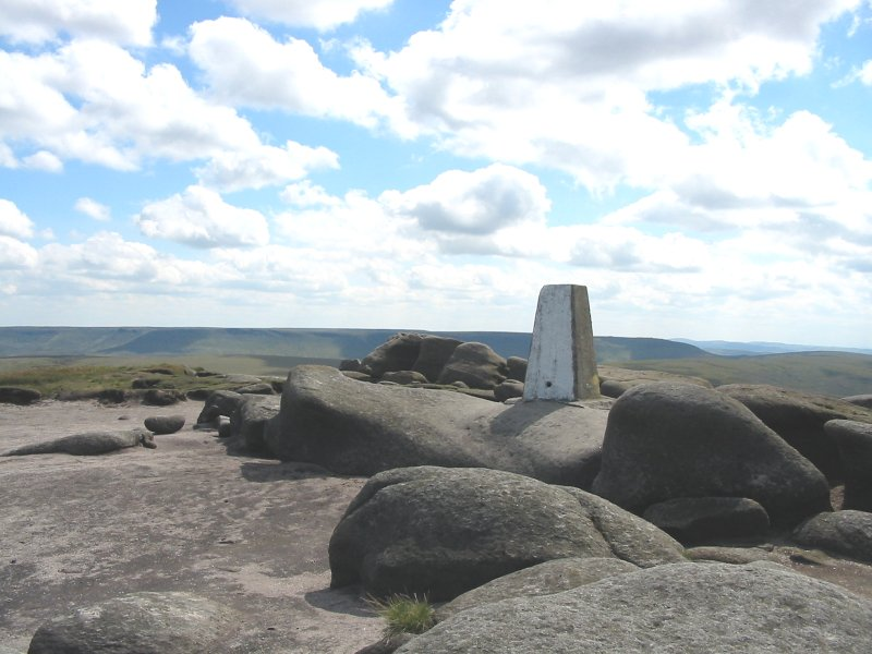 View of the NGR Trig Point on the summit of Bleaklow.